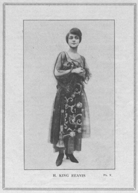 African-American singer Hattie King Reavis, 1921